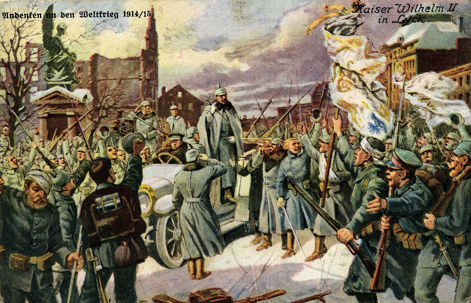 Military propaganda postcard of the German Empire, litho, graphic, colored from the World War I "In Memory of the World War 1914/15 Kaiser Wilhelm II in Lyck". Wounded soldiers cheer to the German Emperor Kaiser Wilhelm II, who is in a car. The city is partially destroyed. A euphemistic representation of the war. Elk (now Ełk) is located in East Prussia until 1945, a German city and is now Polish. The card was on 10/15/1915 as field post from Pula (at thist time part of the Austro-Hungarian Littoral, now Croatia) to Obermillstatt in Carinthia sent. The card is from a recruit who worked on the SMS Custoza, a training ship for cadets (auxiliary boat) as a carpenter. Reverse side